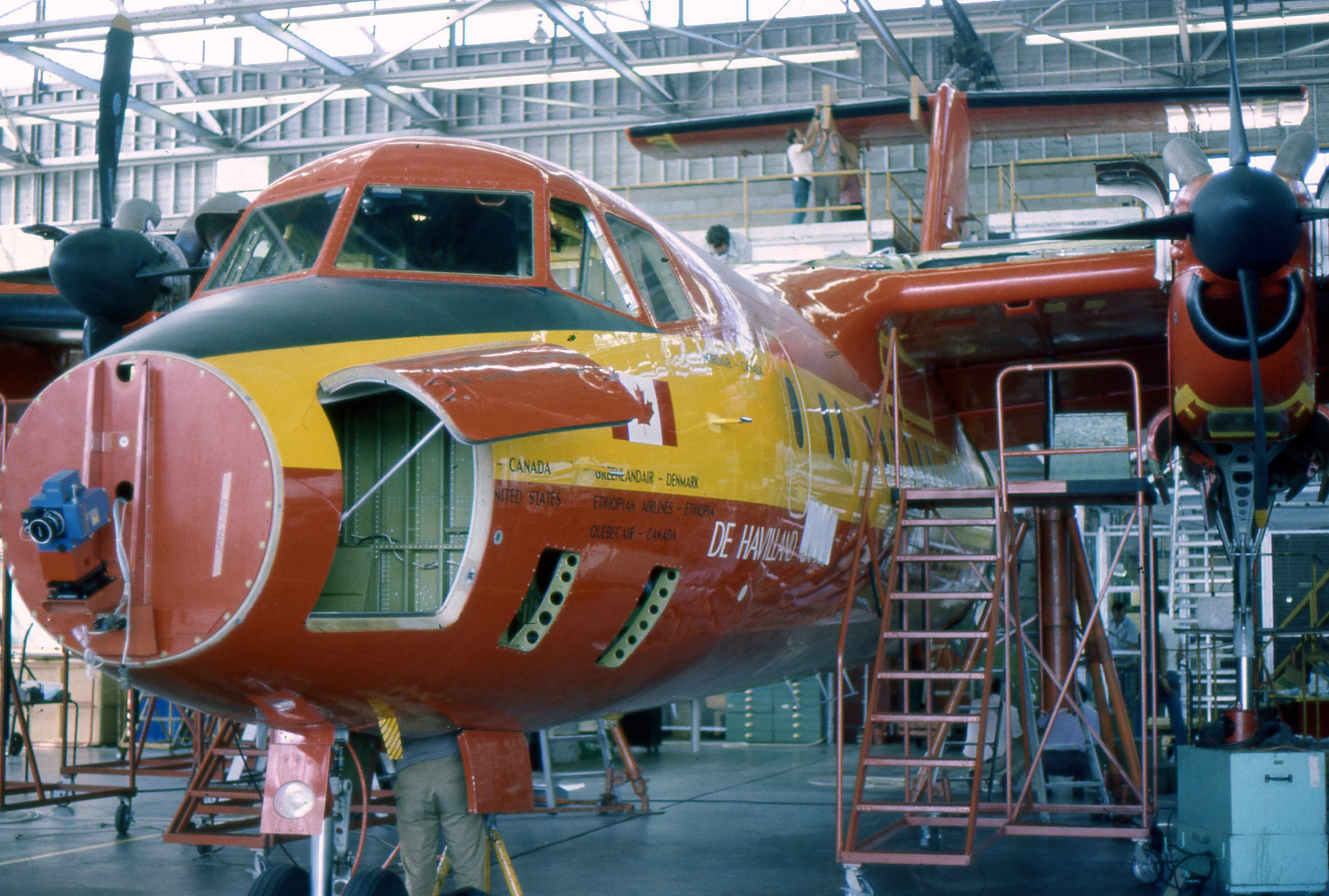 Canada, Downsview. de Havilland Canada Dash 7 C-GNBX-X, taken at Downsview de Havilland Canada plant in August 1975. The plane was one of the prototypes, as the “X” appear at the end of the tail number, employed for test flights.